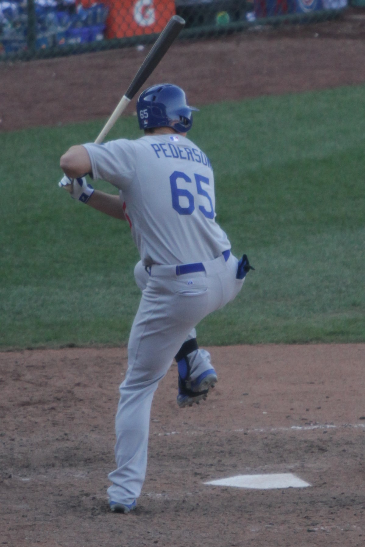 Joc Pederson for the 2014 Los Angeles Dodgers against the 2014 Chicago Cubs at Wrigley Field.